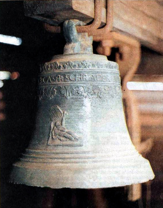 Schraderglocke von 1751 auf dem alten Rathaus Grünstadt (verm. vom Jesuitenkloster Dirmstein)